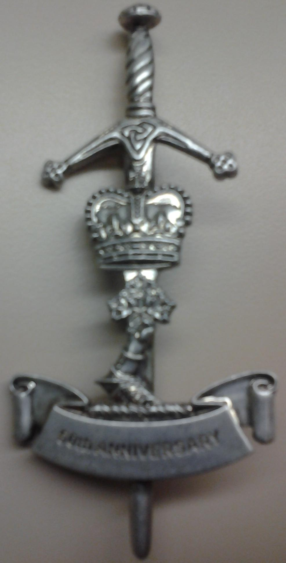 Royal Military College of Canada band 60th anniversary pin 2013